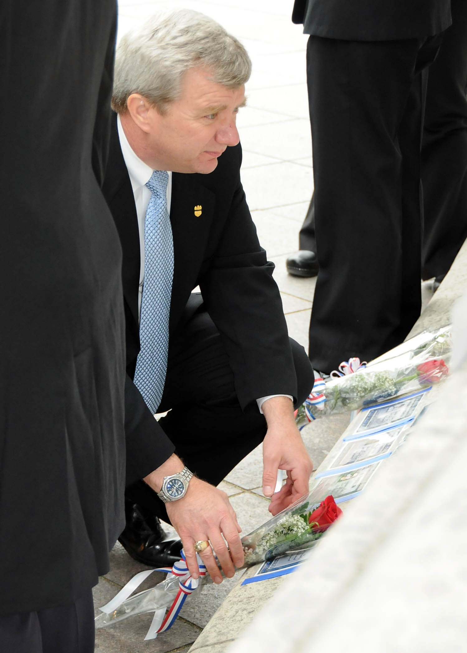 WASHINGTON (May 11, 2010) Mark Clookie, director of Naval Criminal Investigative Service (NCIS), pays his respects to a fallen NCIS agent at the National Law Enforcement Officers Memorial. NCIS and Marine Corps law enforcement personnel conduct an annual wreath laying ceremony at the memorial during National Police Week in May to remember those who have died in the line of duty. (U.S. Navy photo by Mass Communication Specialist 1st Class Kristen Allen/Released)